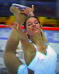 Christiane Berger during her free program at German National Championships of Figure Skating 2006 in Berlin (video cap)